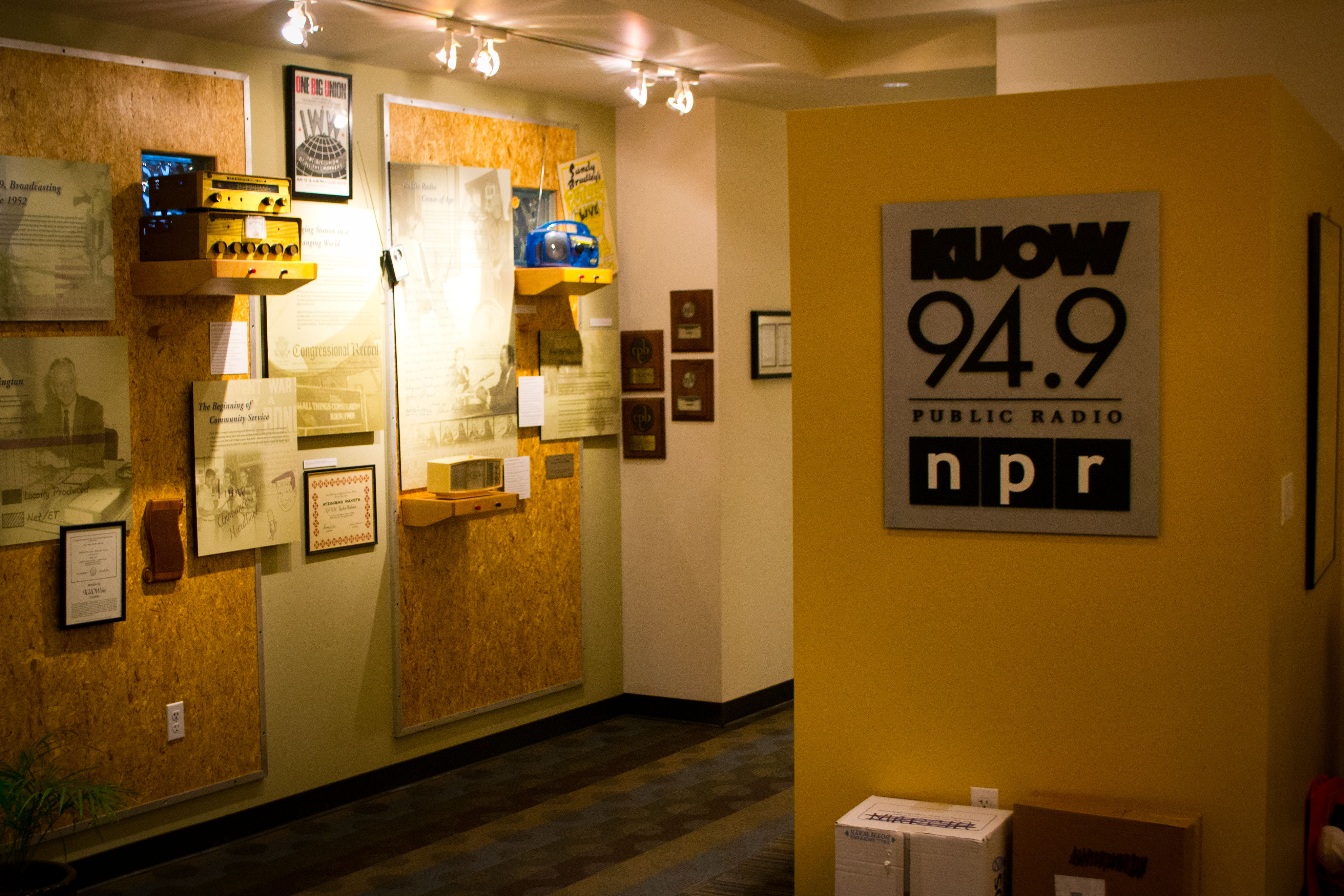 This NPR station is near the University of Washington.